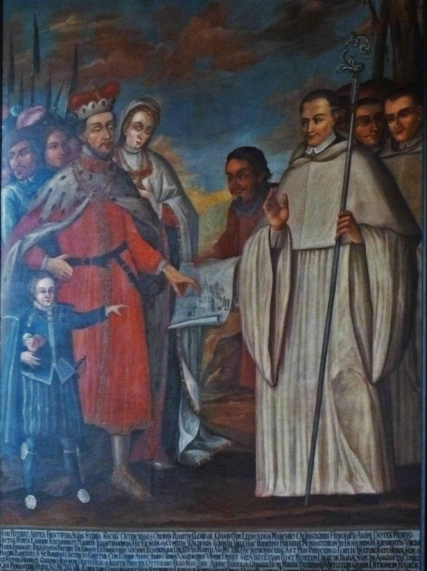 Margrave Leopold I of Steyr passes the Foundation Charter of the monastery of Rein near Graz